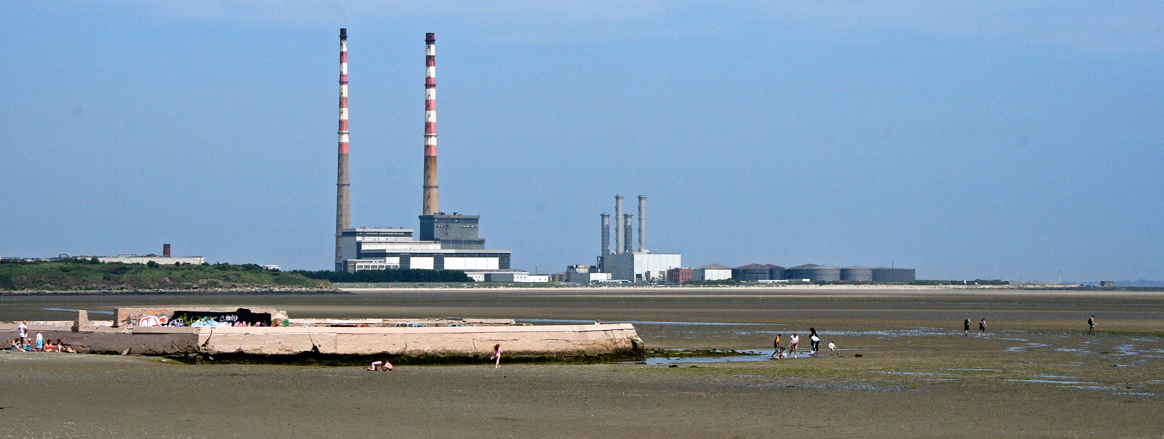 Swimming pool on the beach at Sandymount, Dublin, Ireland